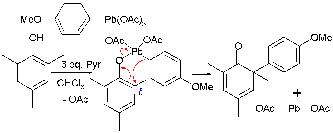 Phenol Lead phenyl triacetate Reaction